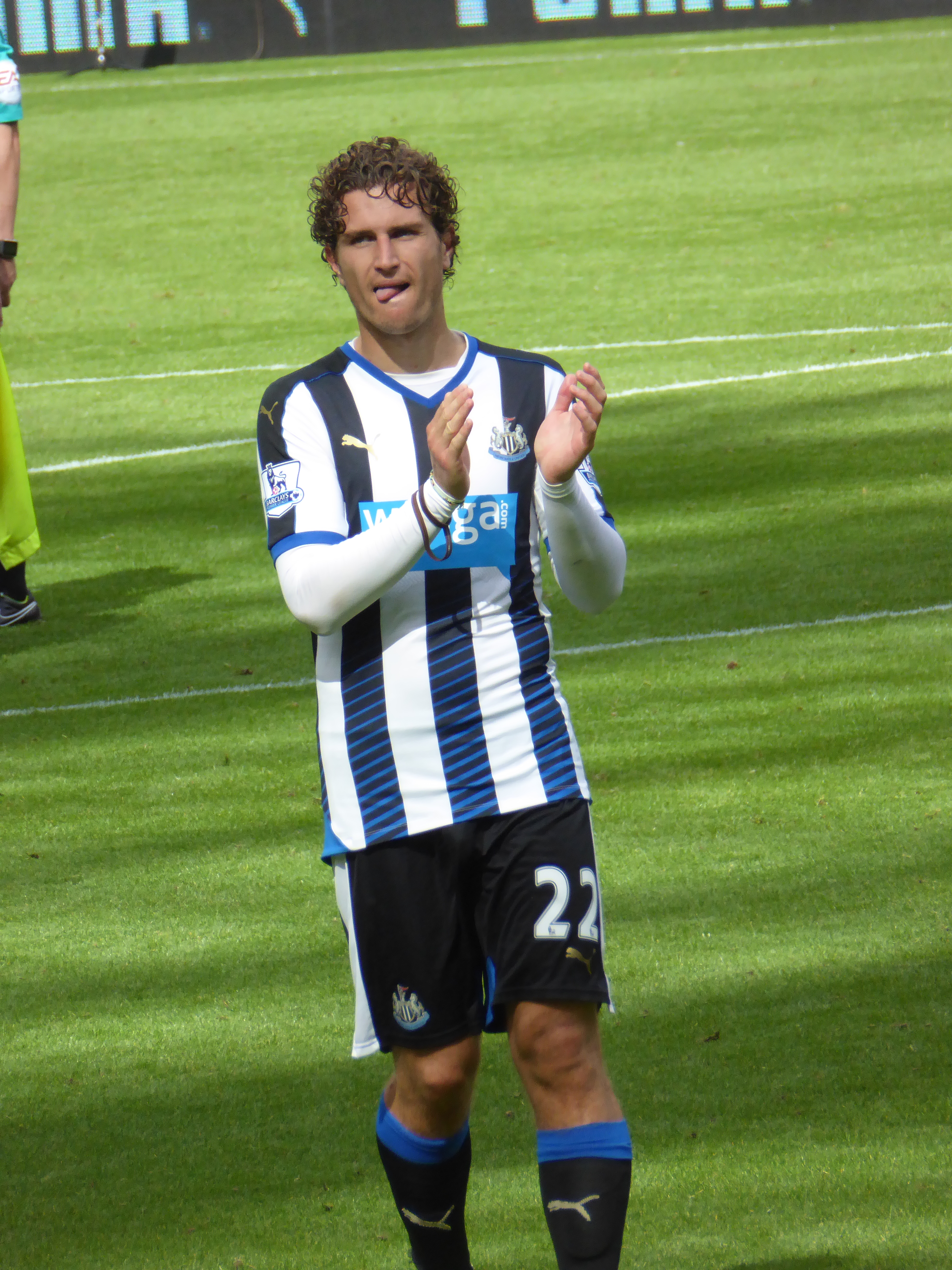 Newcastle United vs Arsenal (0-1), St James' Park, Newcastle upon Tyne, Tyne and Wear, England, August 2015